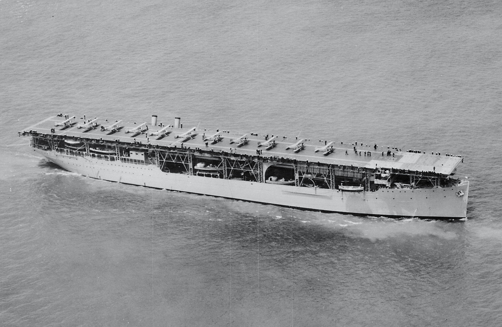 USS Langley (CV-1) underway in June 1927